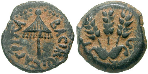 HERODIAN KINGS of JUDAEA. Agrippa I. 37-44 CE. Æ Prutah (16mm, 2.67 gm). Dated year 6 (41/2) CE. BACILEWC AGRIPA, umbrella-like canopy / Three ears of barley between L S (date). Meshorer 120; Hendin 553. Good VF, black patina with earthen highlights.